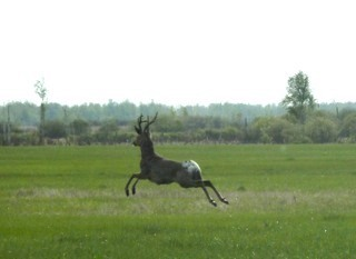 Siberian Roe Deer, wildlife of Slakovo District